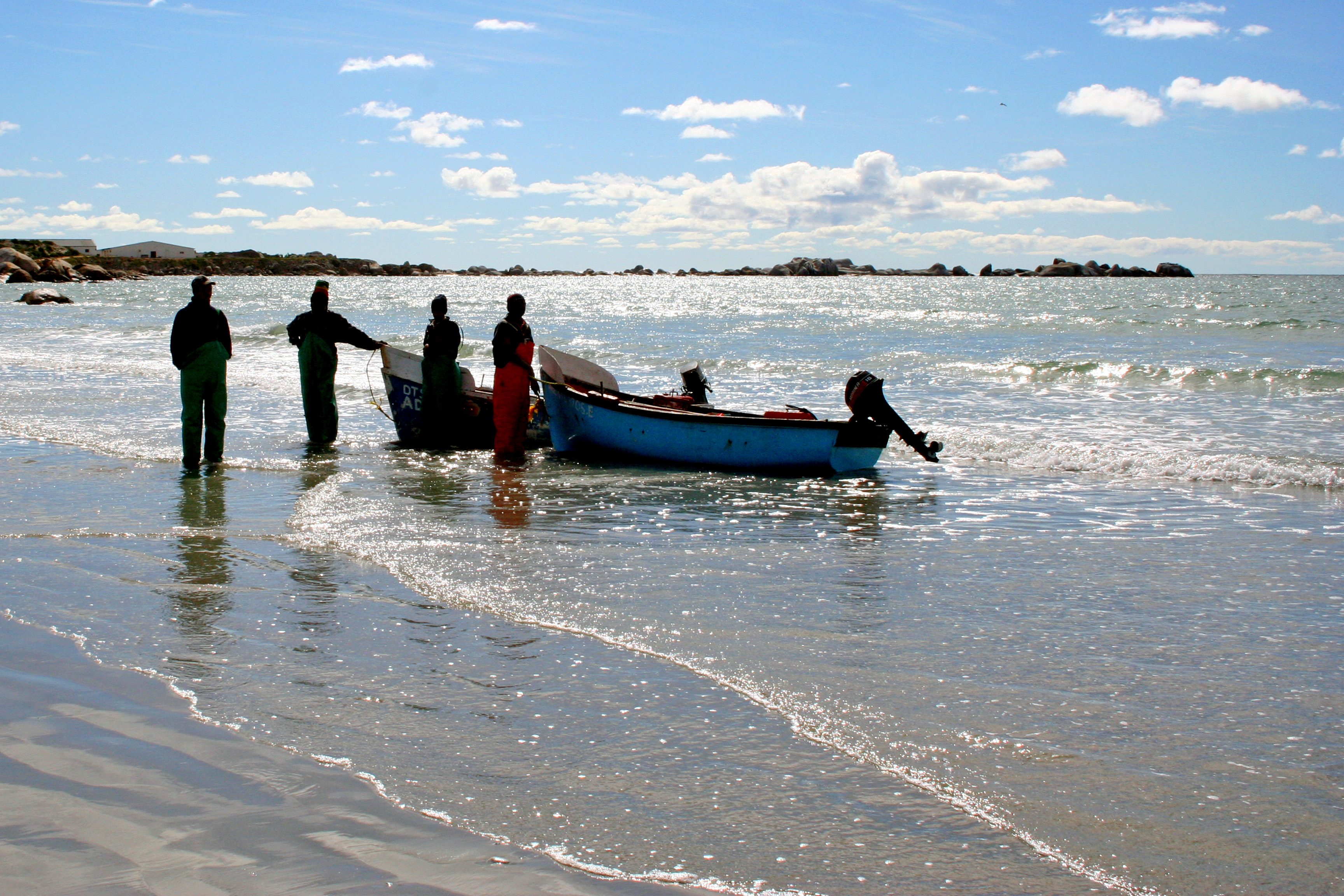 Fishermen selling their catch of the day at the beach of Paternoster, Western Cape, South Africa